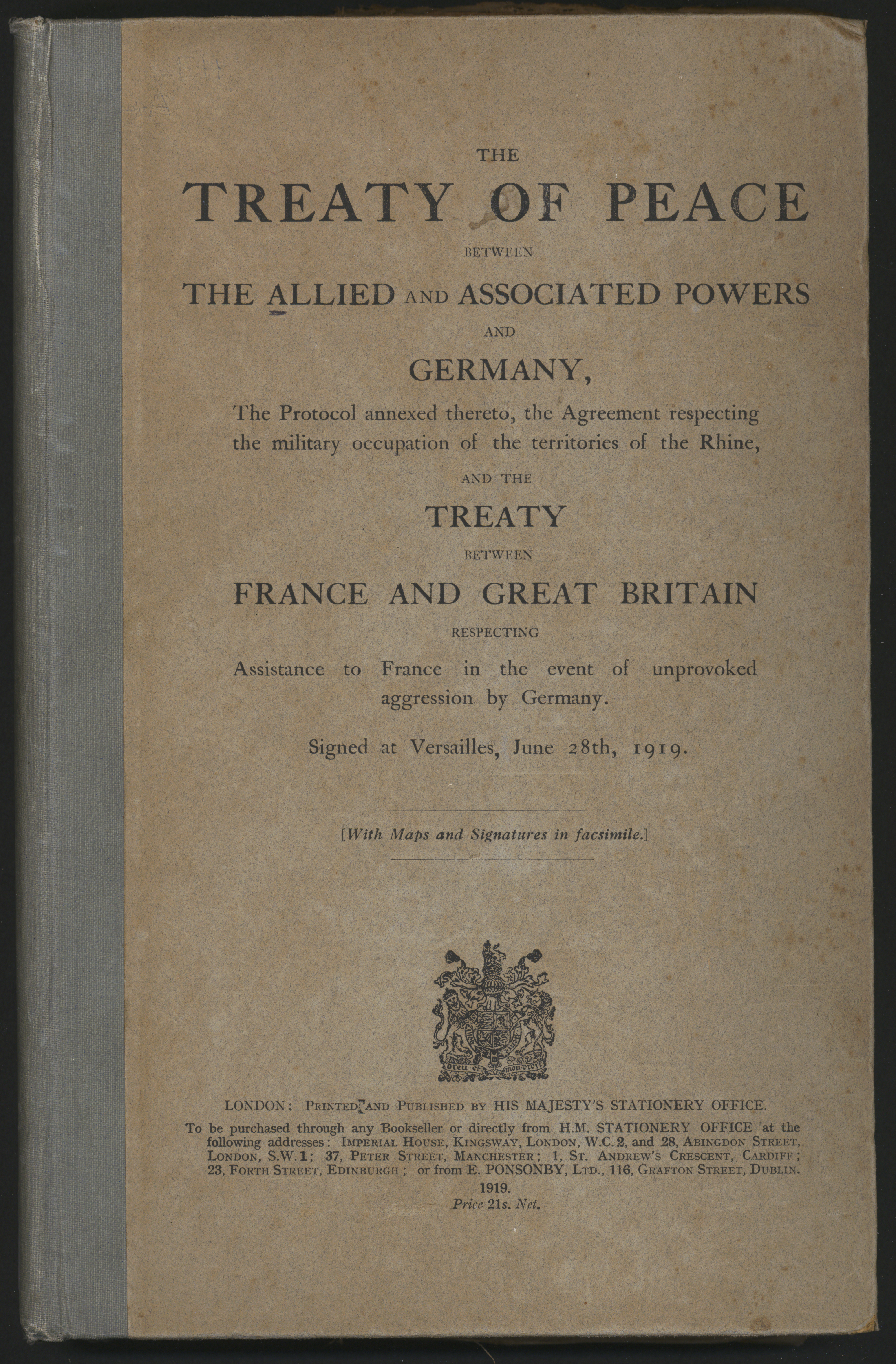 The cover of a publication of the Treaty of Versailles in EnglishThe text reads THETREATY OF PEACEBETWEENTHE ALLIED AND ASSOCIATED POWERSANDGERMANY,The protocol annexed thereto, the Agreement respectingthe military occupation of the territories of the Rhine,AND THETREATYBETWEENFRANCE AND GREAT BRITAINRESPECTINGAssistance to France in the event of unprovokedaggression by Germany.Signed at Versailles, June 28th, 1919.